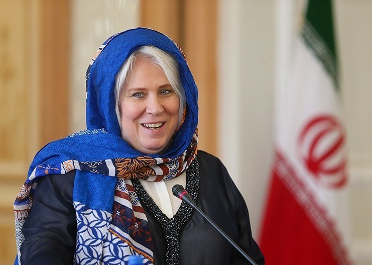 Marina Kaljurand, Estonian Foreign Minister